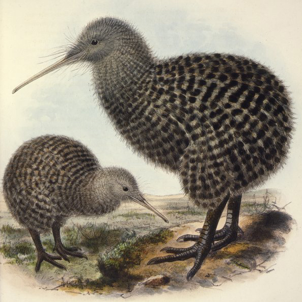 Keulemans, John Gerrard, 1842-1912 :Apteryx haastii. Right:Adult [male]; Left: juvenile, female. Shows an adult male great spotted kiwi viewed from the side, with a juvenile female, both in an open landscape